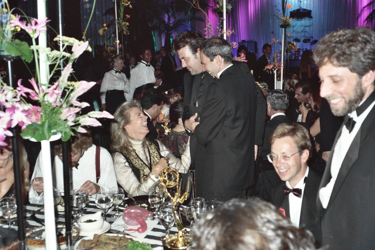 Candice Bergen talks to Robert Pastorelli at the Governor's Ball following the 1991 Emmy Awards. NOTE: Permission granted to copy, publish, broadcast or post any of my photos, but please credit "photo by Alan Light" if you can. Thanks. Scanned from the original 35MM film negative.